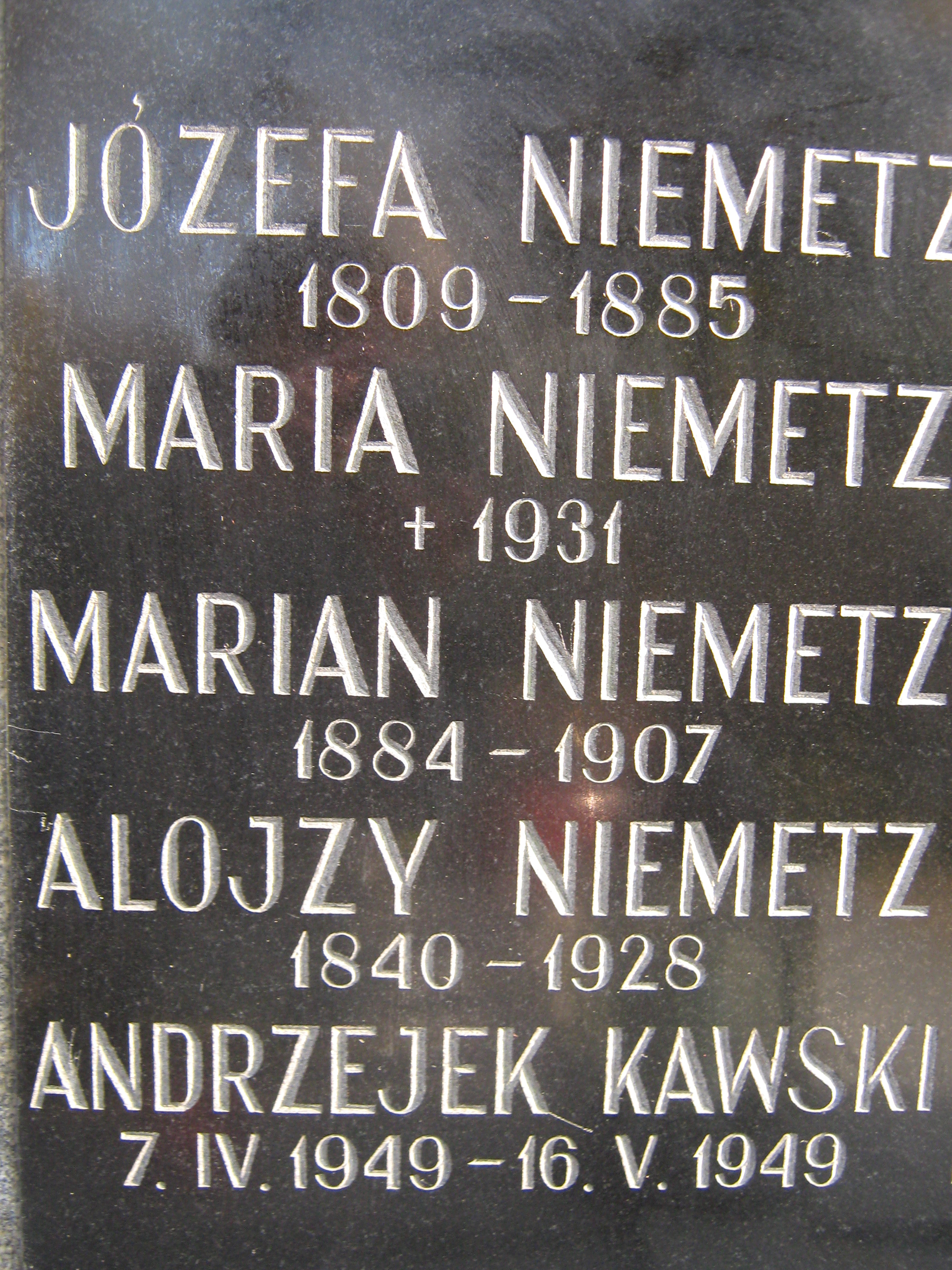 Tabliczka na grobowcu Niemetzów